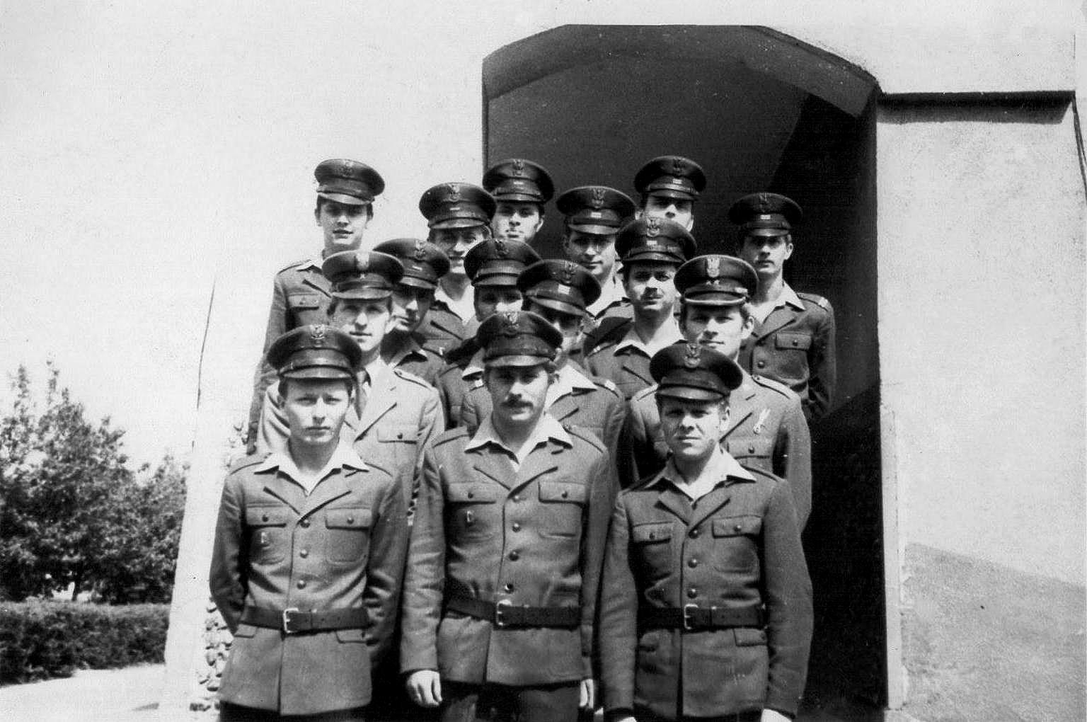 Border Protection Forces in Bielawa Dolna